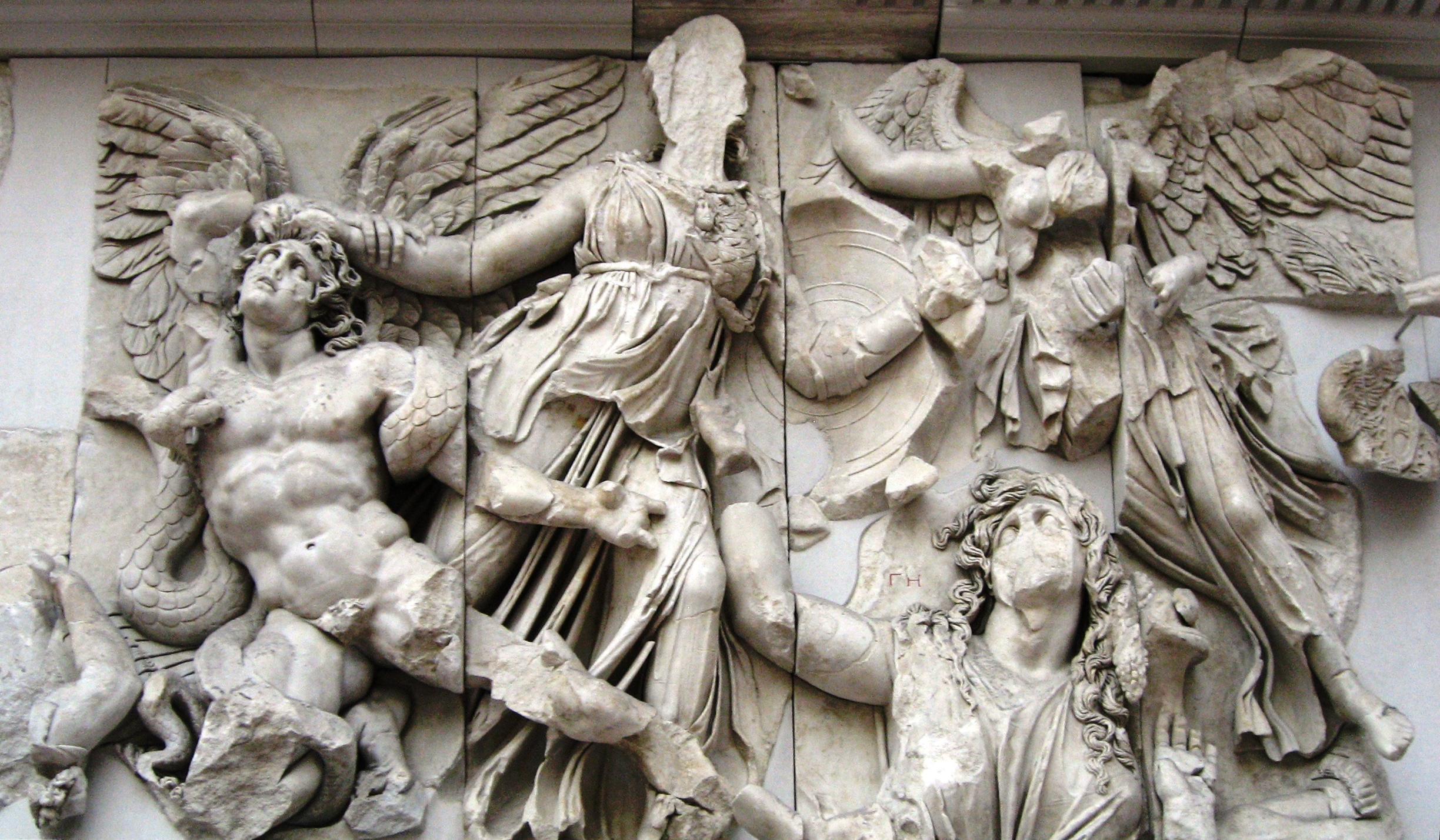 part of the Gigantomachy frieze of the Pergamon Altar. Gaia pleads with Athena to spare her sons.